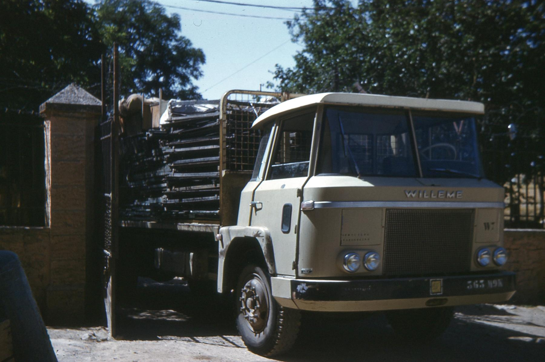 Willeme truck